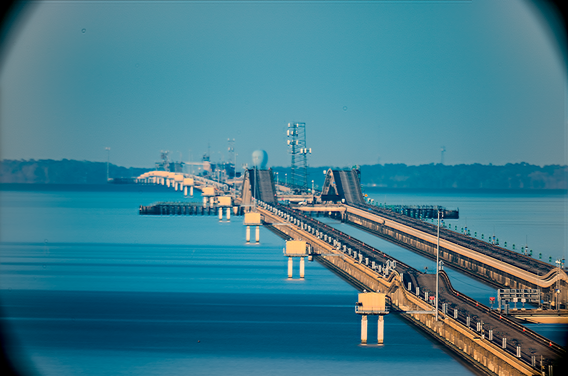 The Lake Pontchartrain Causeway seen curving over the horizon. Taken from the 16th floor of Three Lakeway Center with a Sony a7rii attached to a Celestron Nexstar Evolution 8" Schmidt Cassegrain Telescope. (19 image median stack)